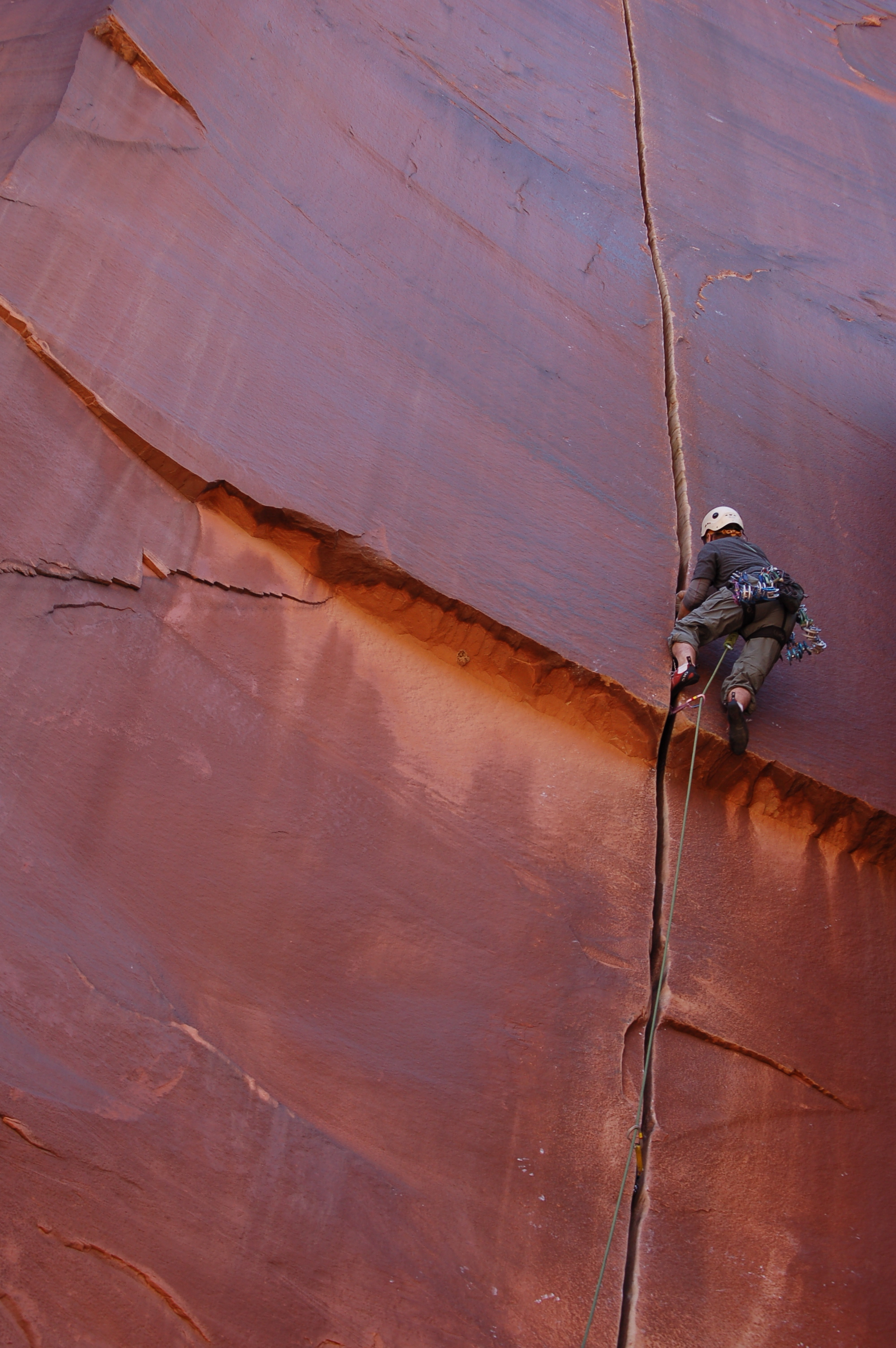 Climbing at Indian Creek climbing area in in Canyonlands near Moab, Utah